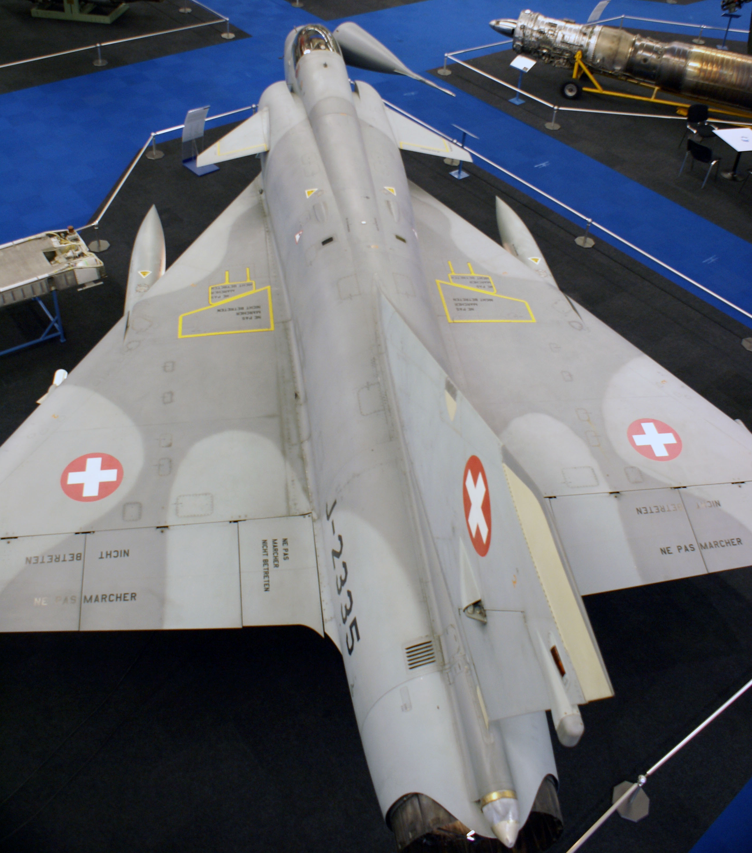 Dassault Mirage III S interceptor as used by the Swiss Air Force from 1967 to 1999.